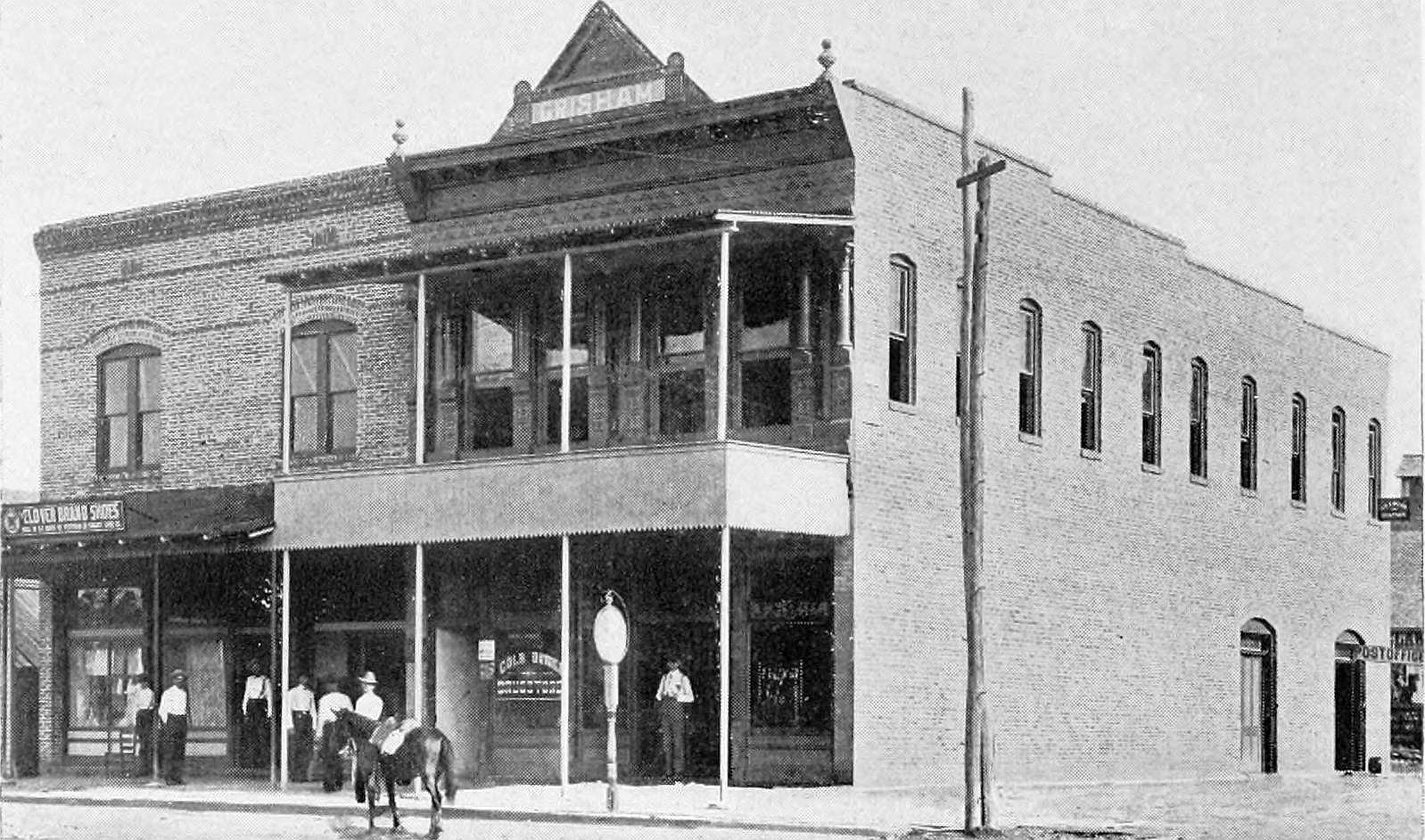 Stores in Winnfield, Louisiana.